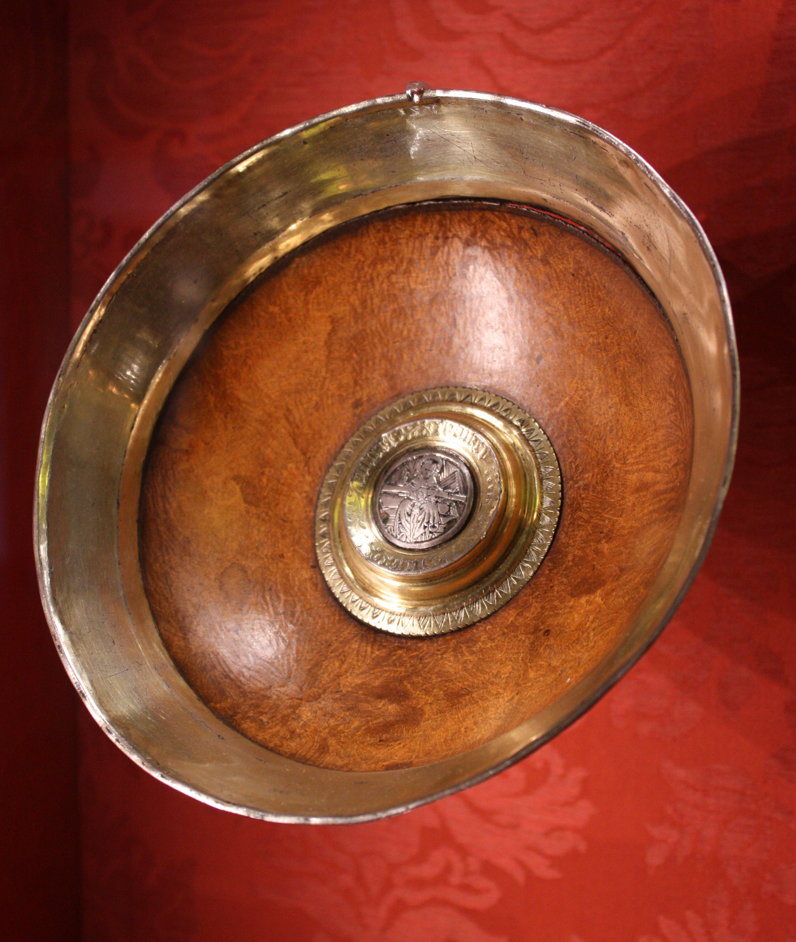 The Robert Chalker Mazer 1480-1500 Great Britain Maplewood with silver-gilt rim and boss. Unmarked The boss engraved with the Trinity, originally enamelled, an unidentified merchant\'s mark and the inscription ROBERT CHALKER IESUS. The base with an incised star and the initials P.P. By the end of the 15th century, mazers were standard, inexpensive drinking vessels. One load of 200 imported into Exeter in 1493 cost only 6 shillings and sixpence. Mazers were turned from maple wood burrs (knots) which were very hard, and had an attractive speckled grain when polished. The name itself derives from the Old German \'masar\', meaning \'spot\'. Collection ID: 45-1874 This photo was taken as part of Britain Loves Wikipedia in February 2010 by Valerie McGlinchey.